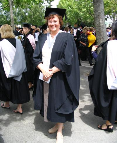 Photo taken at the University of Canterbury graduation ceremony held during december 2004. Photo taken by User:Clawed. Category:Images of New Zealand